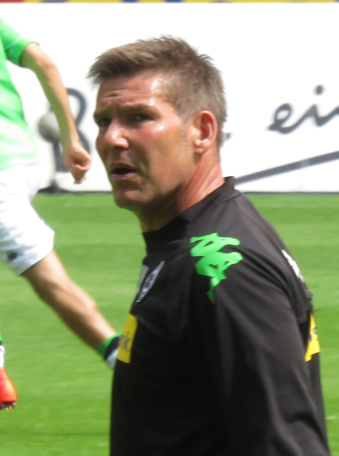 Uwe Kamps